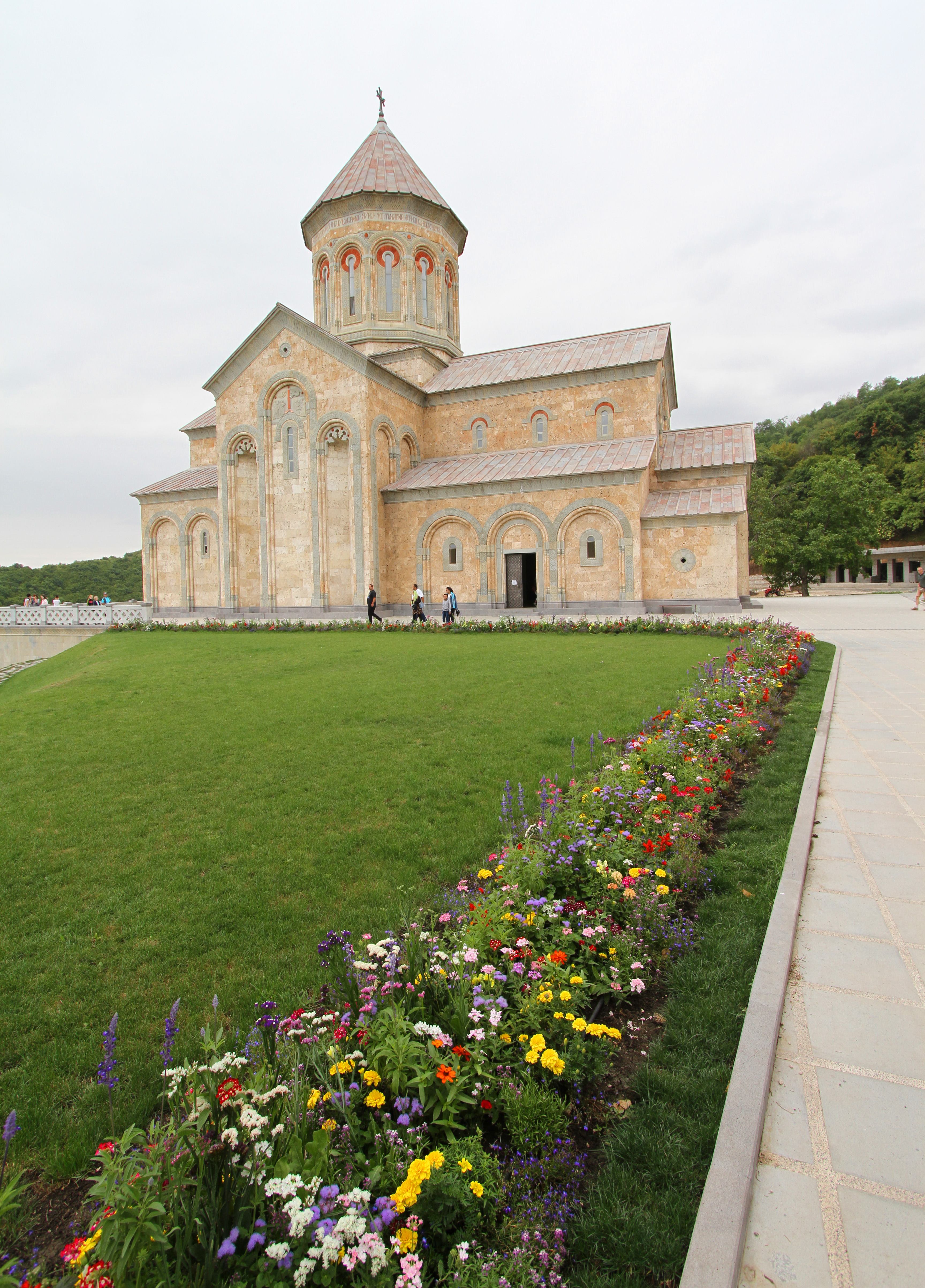 Bodbe Monastery, Sighnaghi